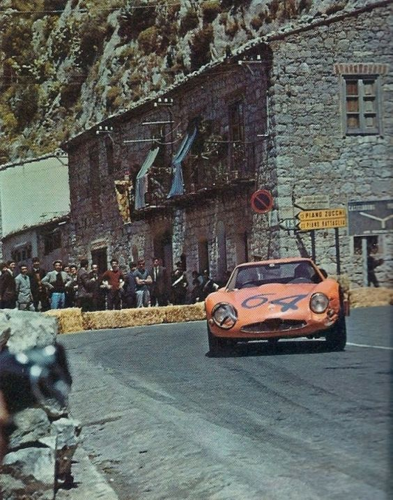 Robertellino Bussinello and Nino Todaro in 1965 Alfa Romeo Giulia TZ2 s/n 750112 at 1965 Targa Florio, 1965. They had an accident and did not finish.[1]